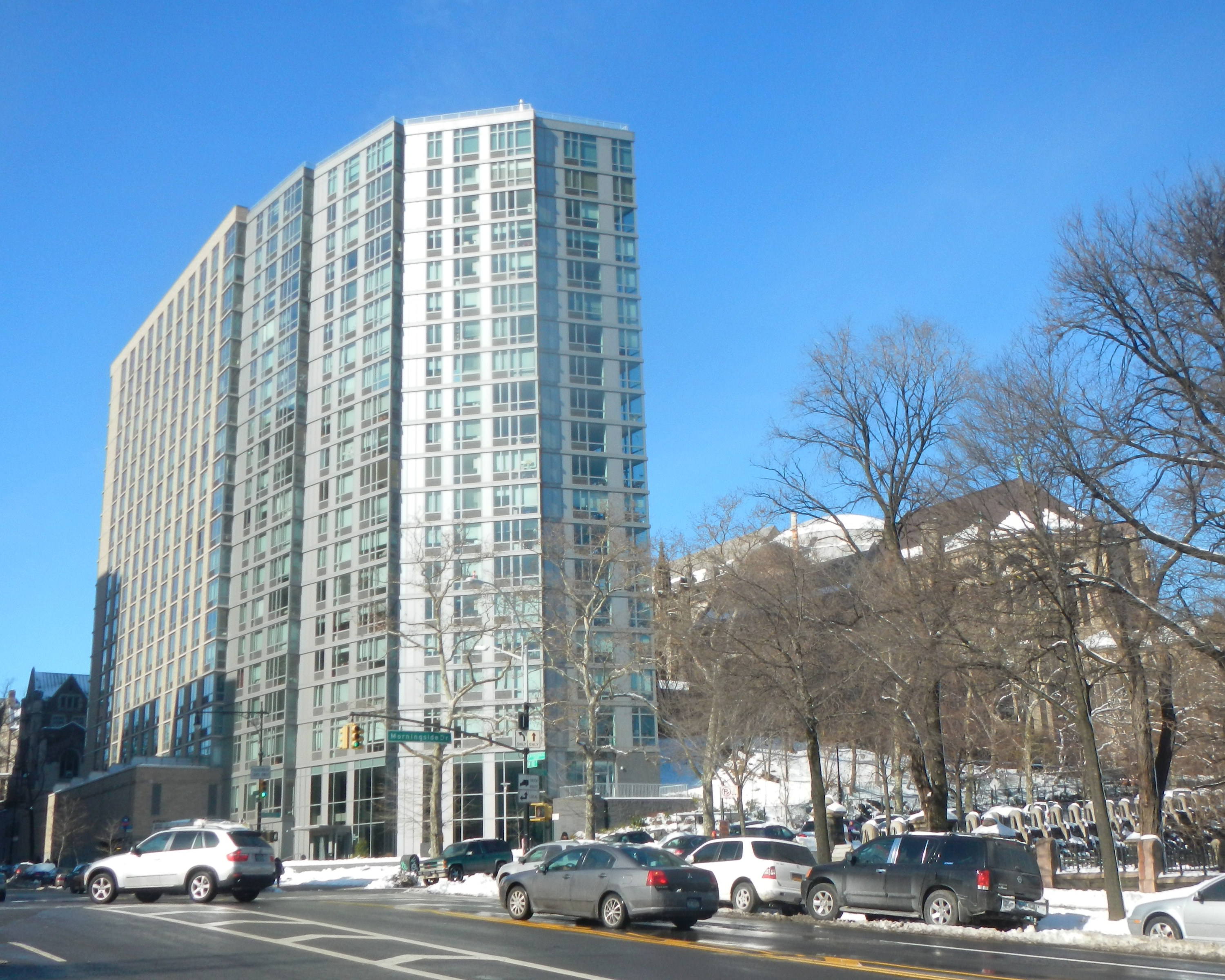 Looking north at apartment house on a sunny day after snow.